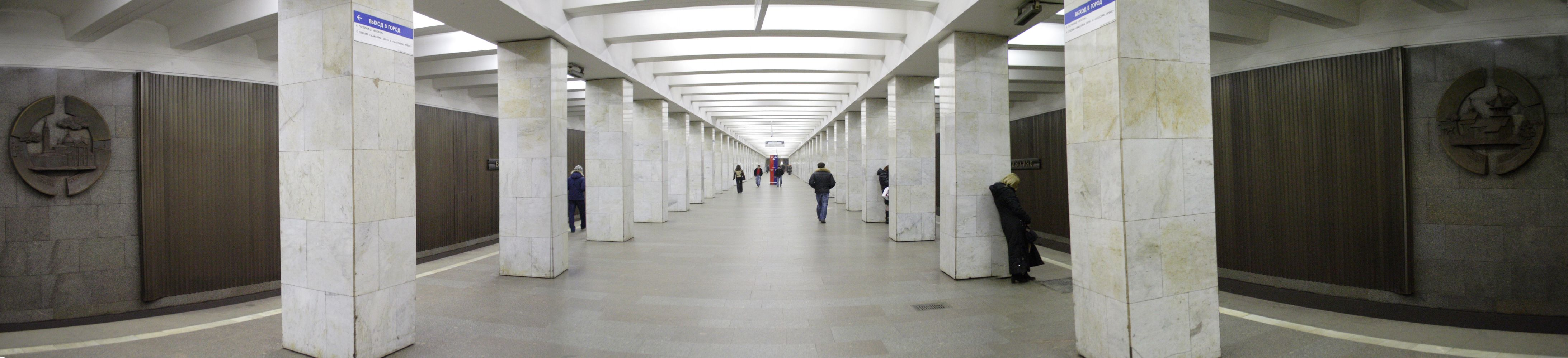 Panoramic view of moscow metro station Vladykino